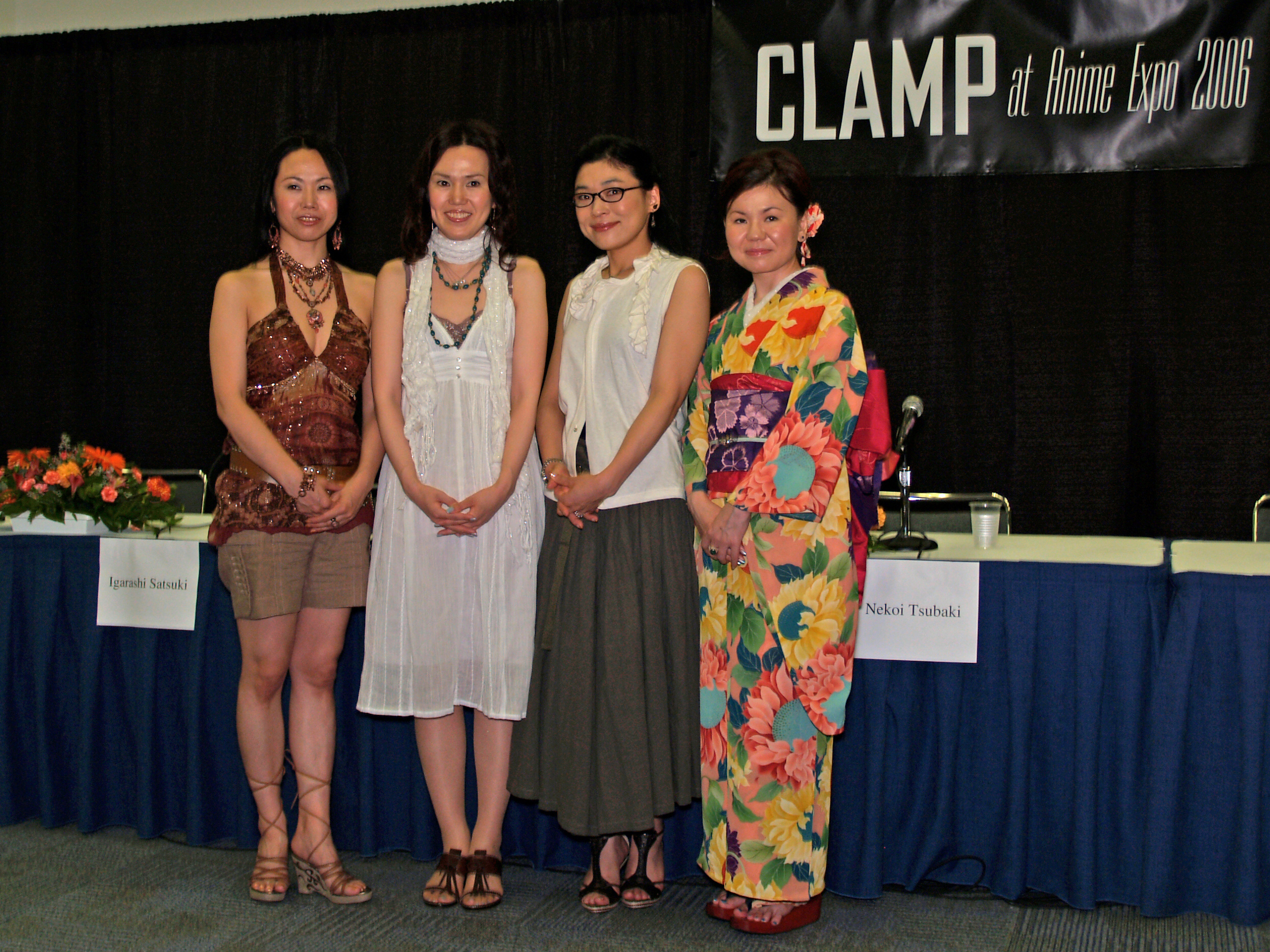 Clamp (group of artists) at the Anime Expo 2006